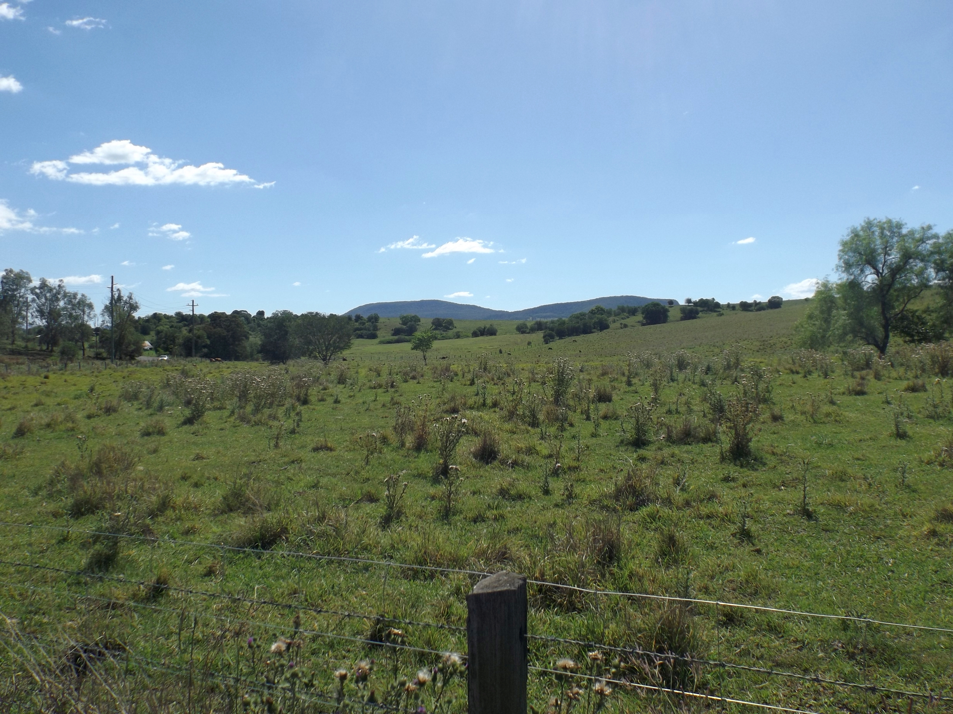 Photo of fields at Hoya, Scenic Rim Region, Queensland, Australia.